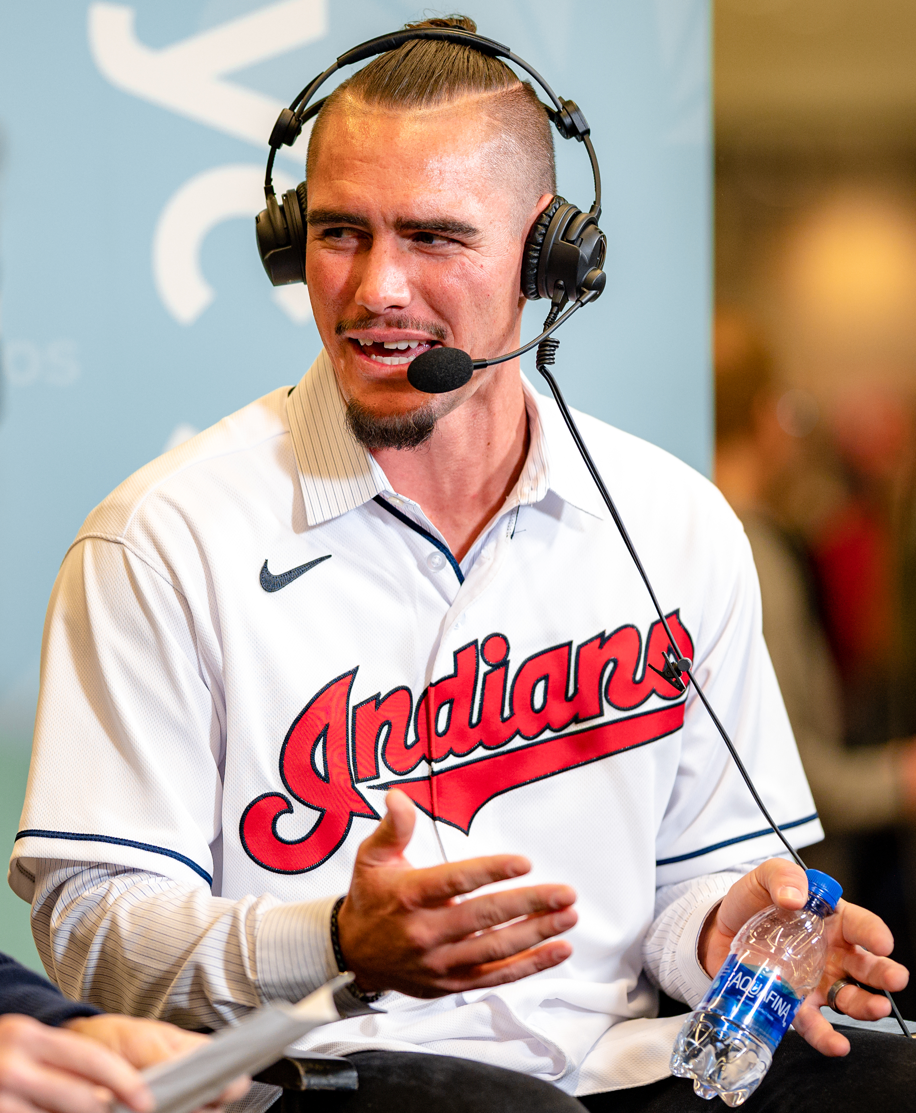 Nick Wittgren gives an interview at Cleveland Indians Tribe Fest at Huntington Convention Center of Cleveland in February 2020.